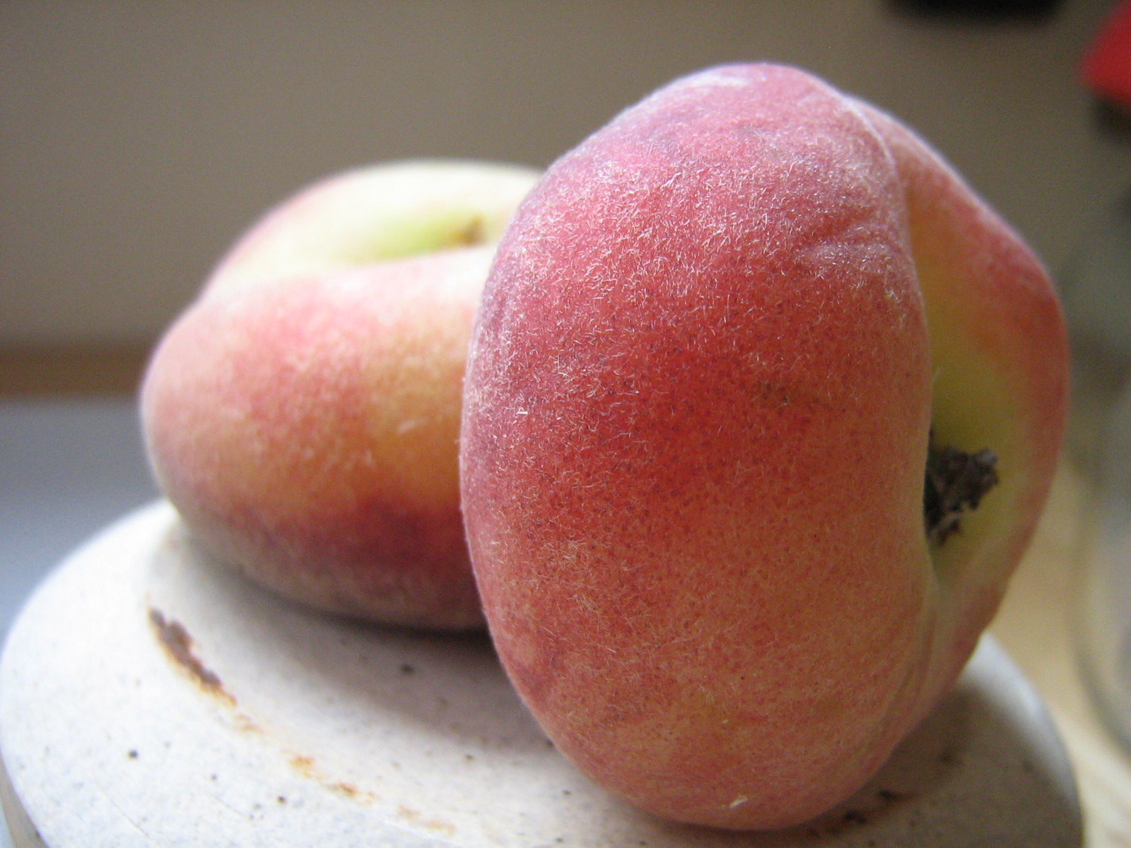 Two flat peaches